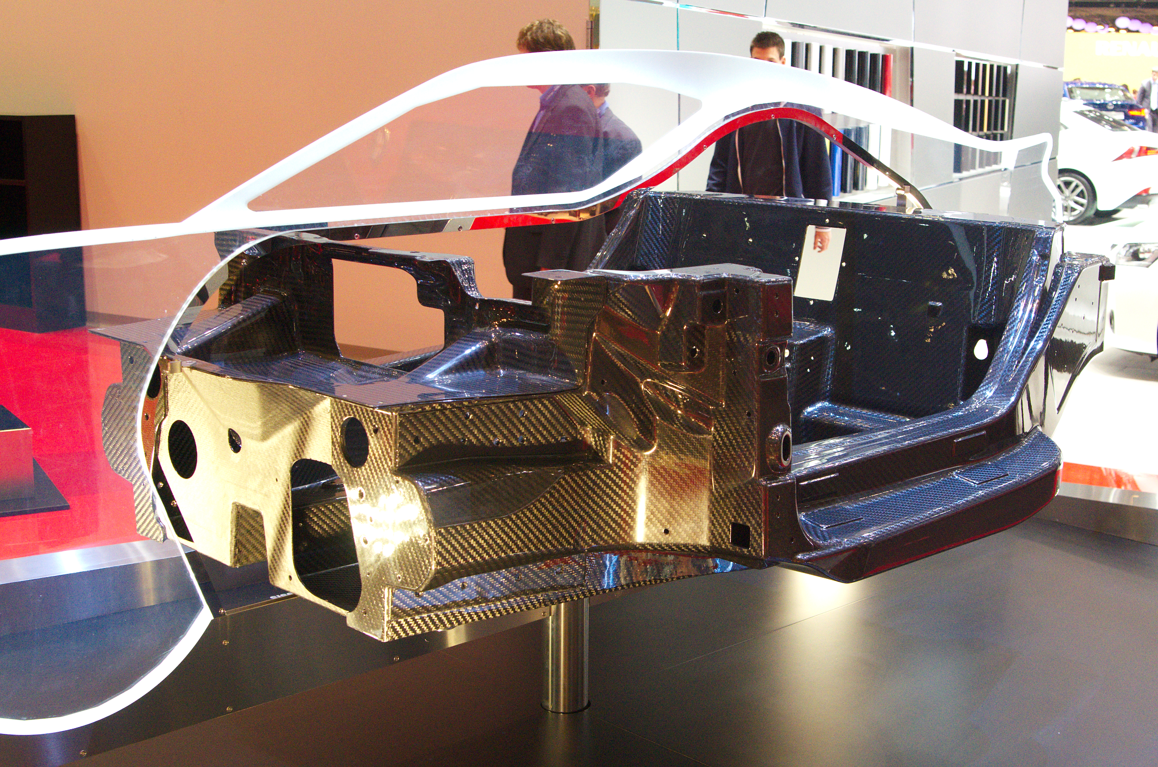 Geneva MotorShow 2013 - Alfa-Romeo carbon frame